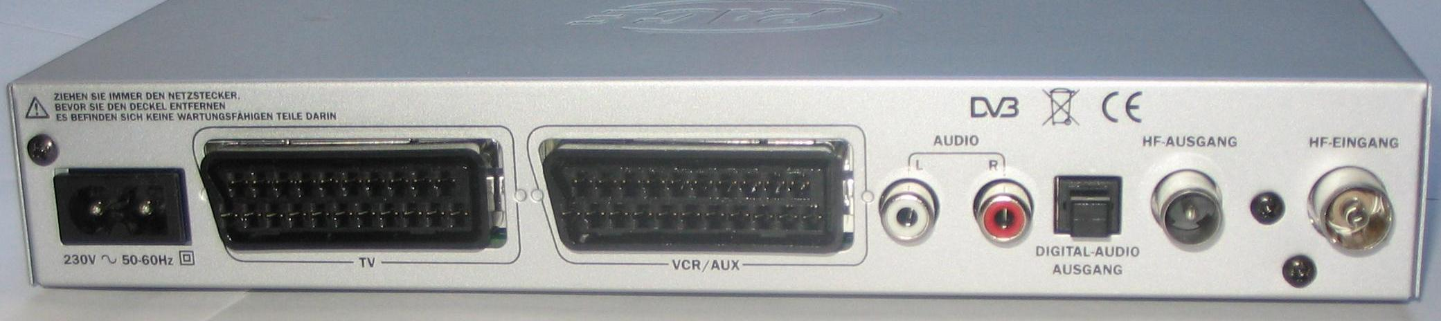 The backside of the German "Kabel Digital" ("Kabel Deutschland") Receiver Photo taken on June 26, 2006. Photo by User:Jarlhelm